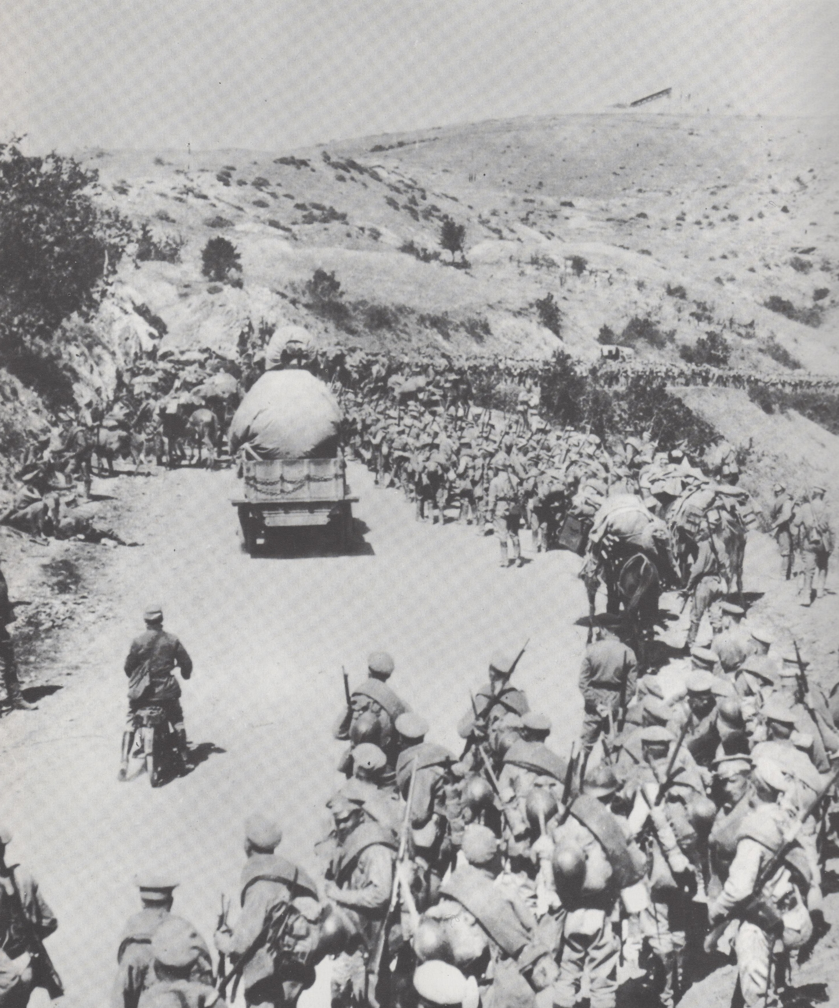 Dieterichs Brigade (Greece Jul 1916)